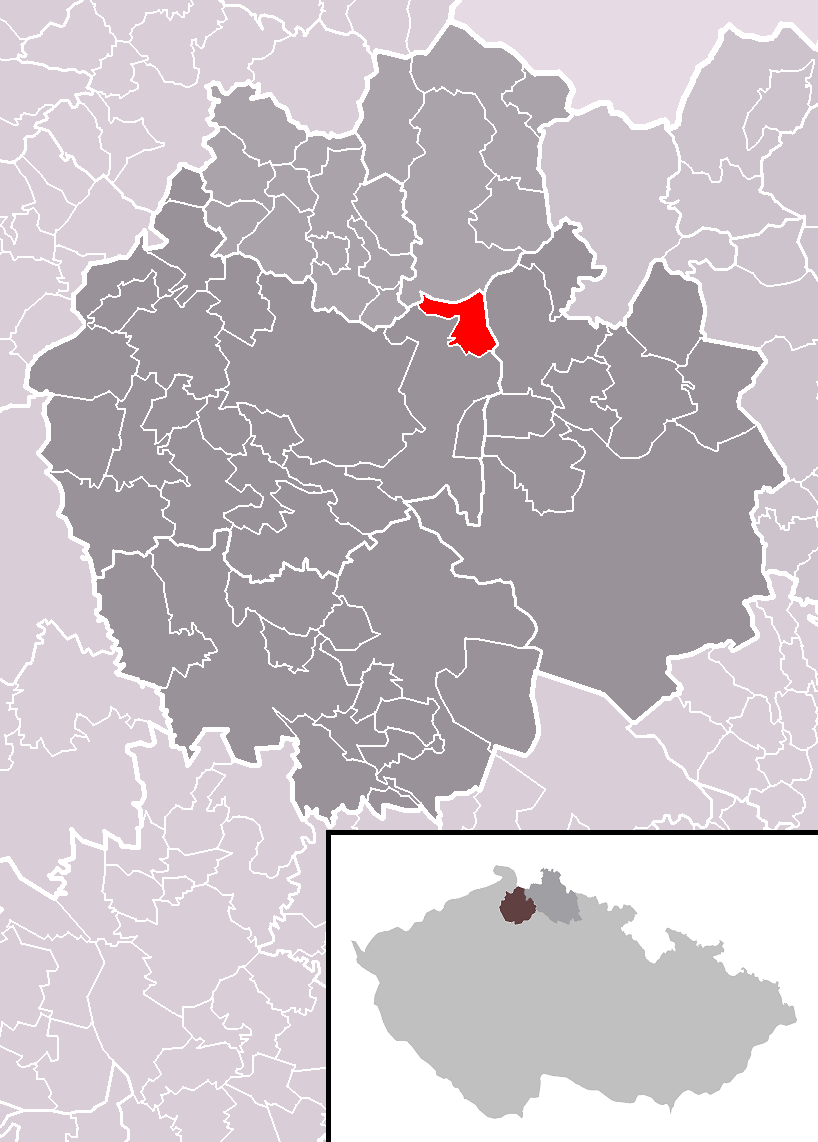 Location of Velenice municipality within Česká Lípa District and administrative area of Česká Lípa as a Municipality with Extended Competence.